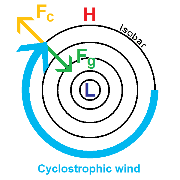 Cyclostrophic wind Fg:Pressure gradient force Fc:Centrifugal force